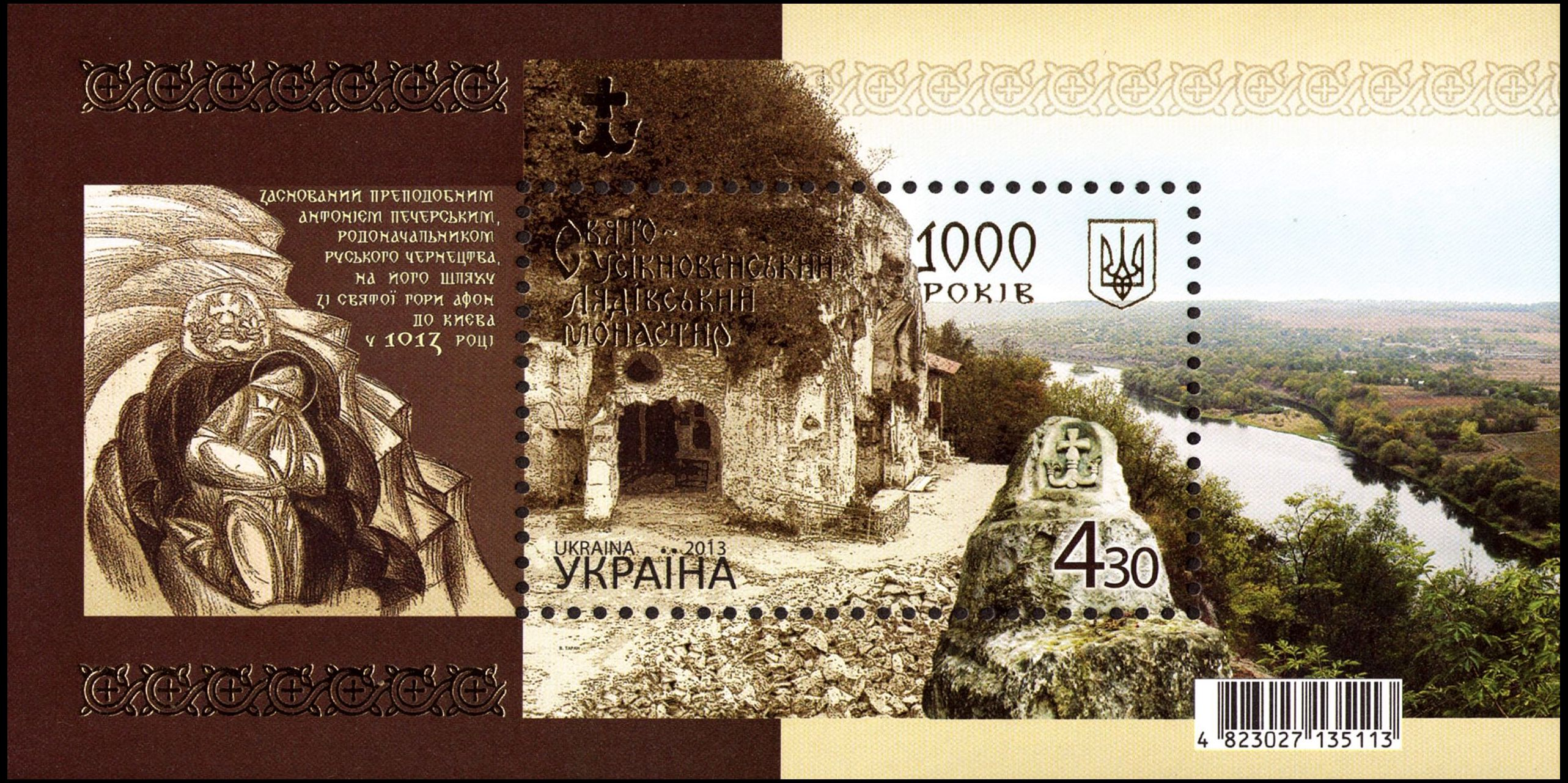 The Monastery of the Decollation of St. John in Lyadova. 1000th anniversary of the cloister. The souvenir sheet of Ukraine, 1 stamp×4.30 hrn., 15 September 2013, Ukrposhta No 1315 (miniature sheet No 117), Michel No 1359 (Block113). Offset printing, metalized foil embossing. Perforation: frame 11½. The size of the souvenir sheet: 105×54 mm. The size of the stamp: 45.24×29.58 mm. Print run: 65,000. The Monastery of the Decollation of St. John in Rocks, Lyadova village, Mohyliv-Podilskyi Raion, Vinnytsia Oblast, Ukraine. St. Anthony of Kiev, the founder of the monastery (on the left). The text on the margins of the souvenir sheet: „The monastery was founded by Saint Venerable Anton of Kiev, the father of the Russian monasticism, on his way from the Sacred Mount Athos to Kiev in 1013.“